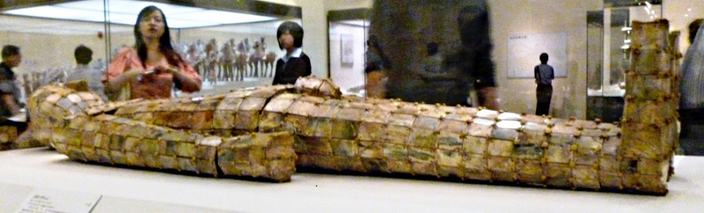 I took this photo at the National Museum of China in Beijing in 2010.